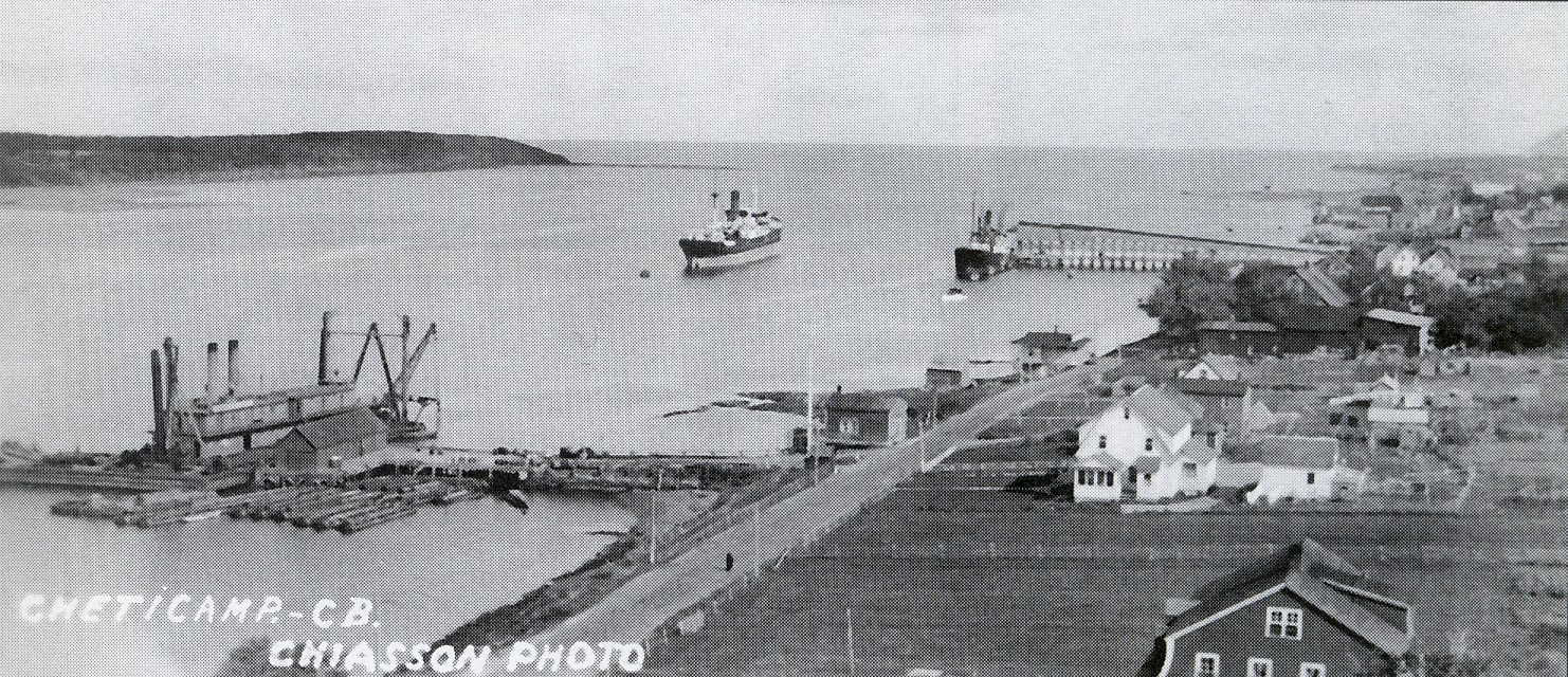 The harbour of Chéticamp, Nova Scotia (Canada).